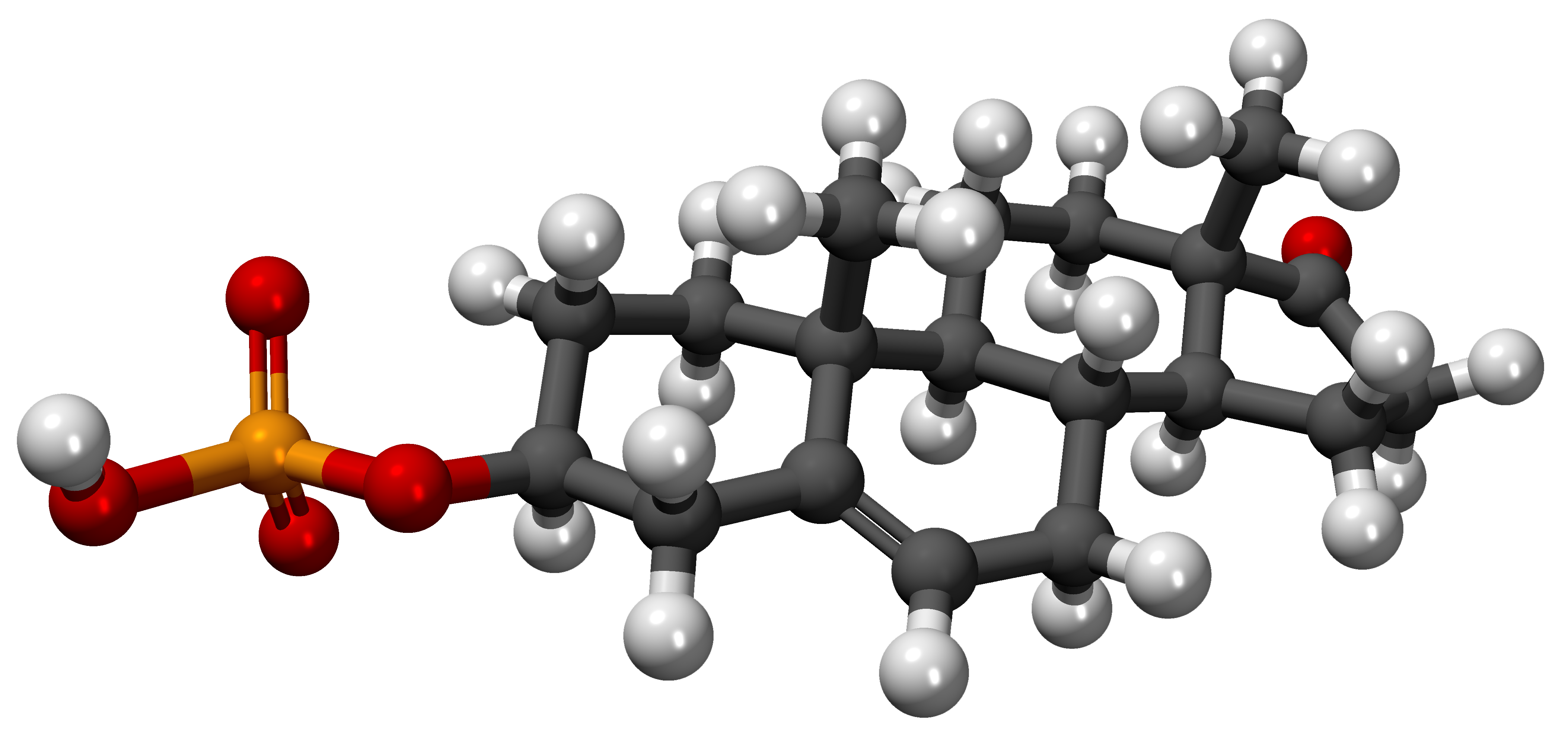 Ball-and-stick model of the Dehydroepiandrosterone sulfate molecule C19H28O5S. Model constructed using ACD/ChemSketch and Accelrys DS Visualizer.